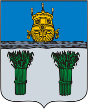 Kadyi (Kostroma oblast), coat of arms (1779)